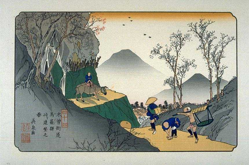 Magome on the Kisokaido, ukiyo-e prints by Keisai Eisen